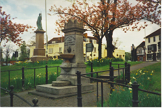 Esher, Fountain on The Green. The centre of Esher, a very opulent commuter village in the Surrey stockbroker belt. Queen Victoria gave this fountain to Esher in 1877. She may have visited The Bear (background) afterwards!